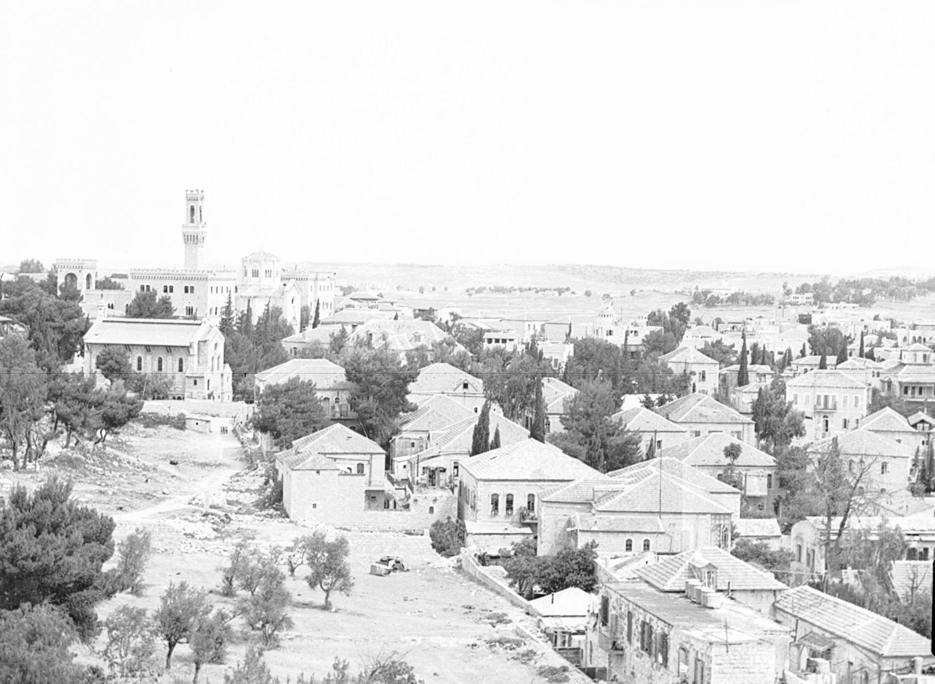 Cities in Israel : Jerusalem, Morasha neighborhood, Notre-Dame de France